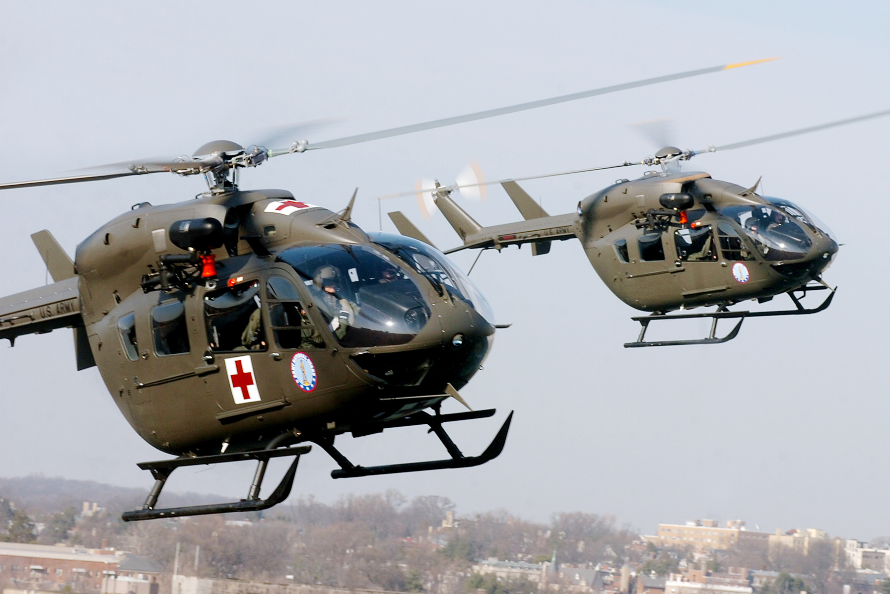 U.S. Soldiers with the 121st Medical Company fly their UH-72A Lakota helicopters over Washington, D.C., March 6, 2009. The unit is the first medical evacuation unit to receive the new helicopters, which will eventually replace the UH-1 Iroquois fleet.